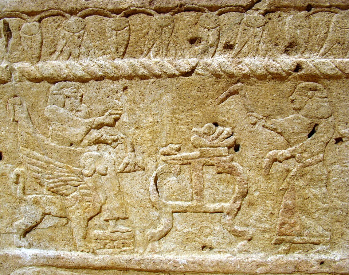 Relief on Sarcophagus of Ahiram, King of Byblos (Phoenicia). Beirut National Museum